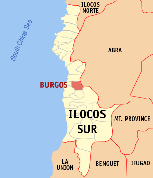 Map of Ilocos Sur showing the location of Burgos